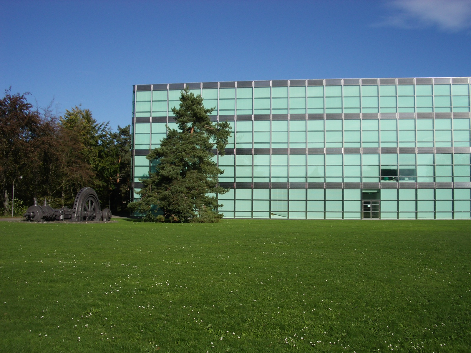 Windisch AG, Switzerland